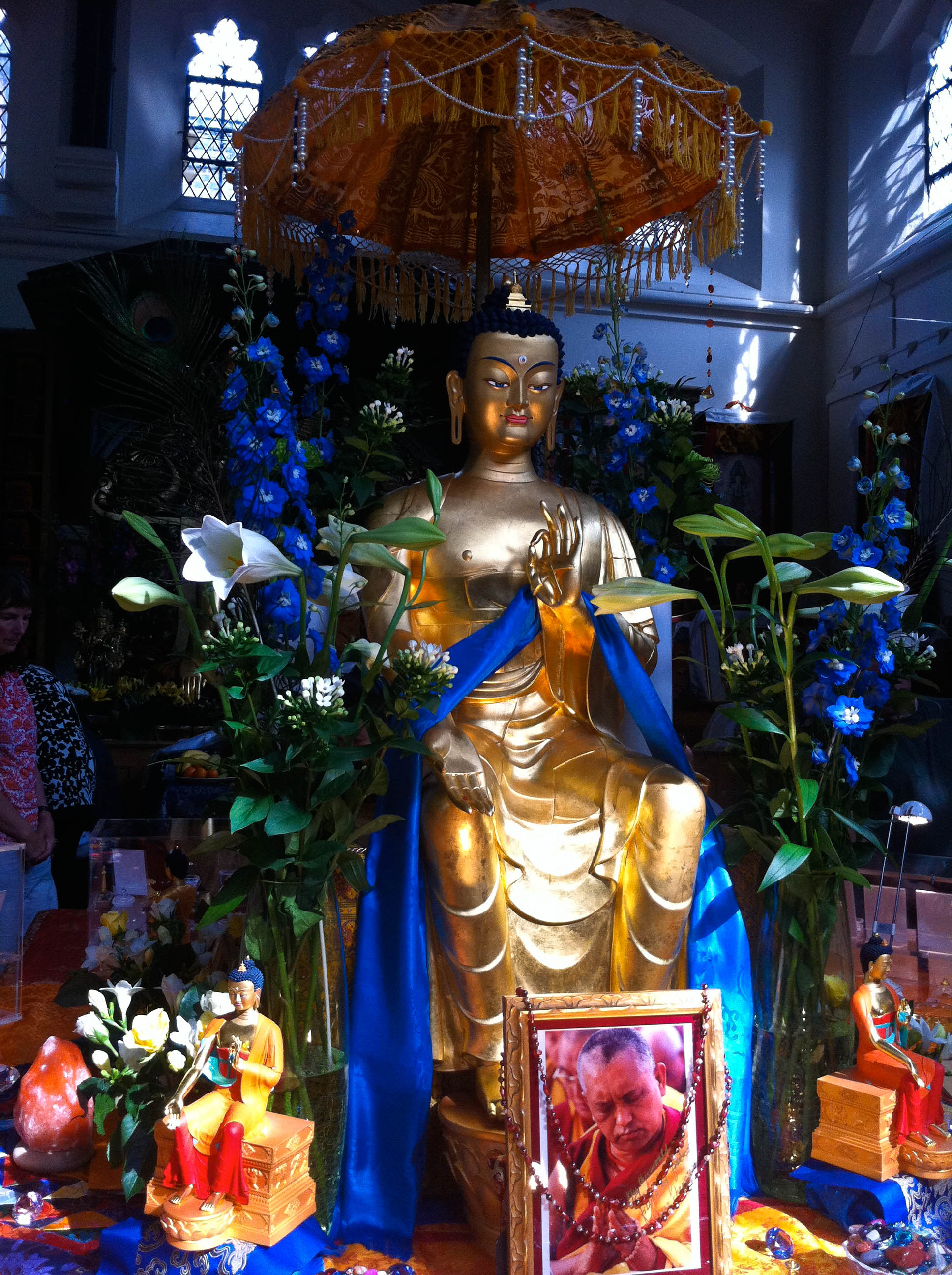 The centre shrine of the Maitreya Project heart shrine relic tour in Jamyang Buddhist centre in London September 2010.